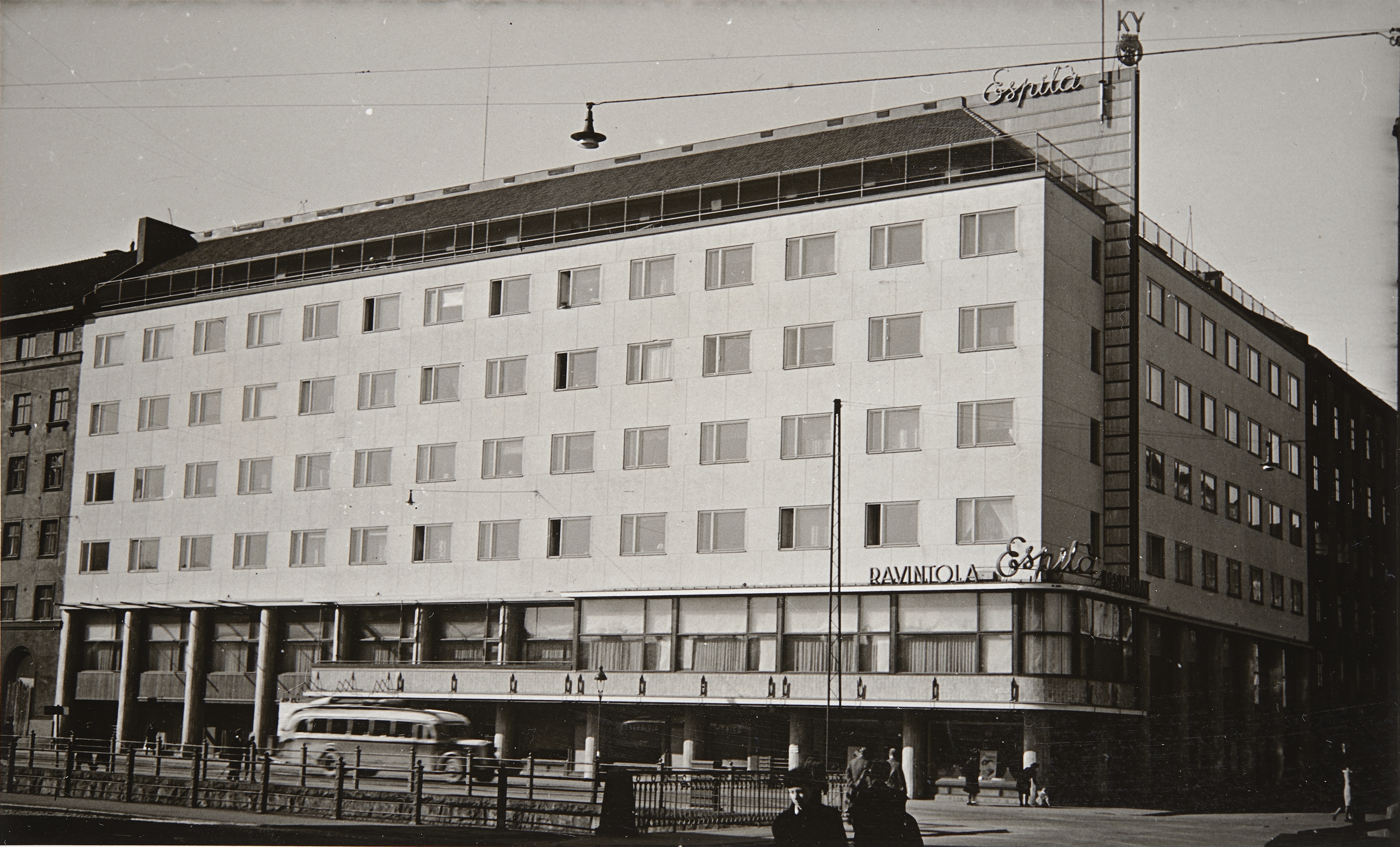 Building at Pohjoinen Rautatiekatu 21, owned by KY, the Student Union of the Helsinki School of Economics. Pictured around 1942, housing a newly opened restaurant Espilä which continued the tradition and ownership of the Espilä restaurant in the former Finnish city of Viipuri, burned down during the Winter War.